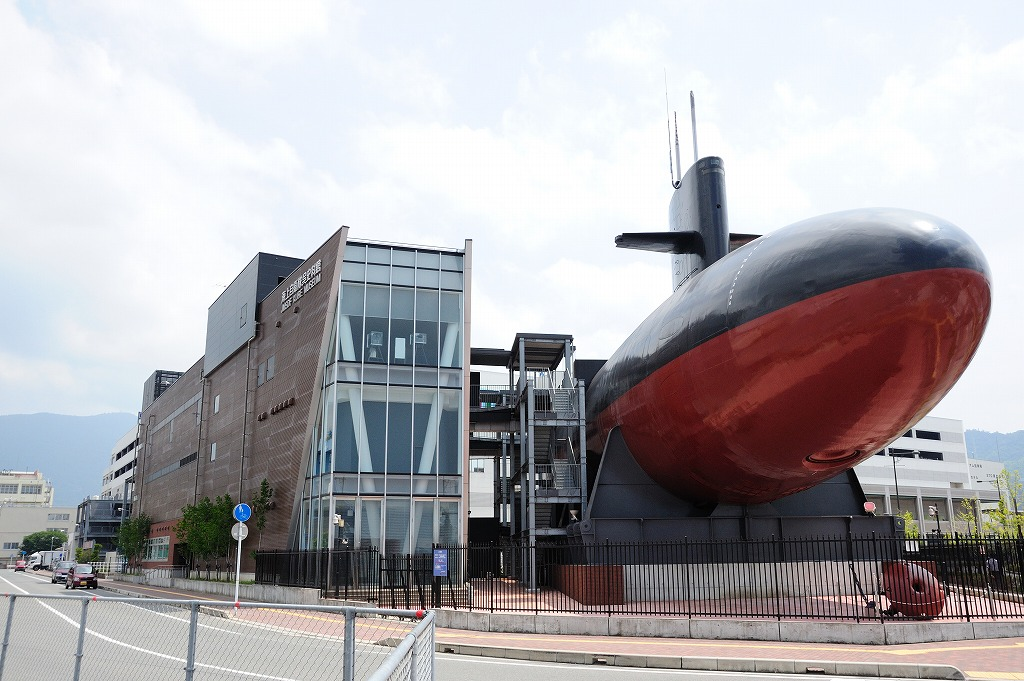 Tetsu No Kujira Kan（JMSDF Kure Museum）at kure hiroshima japan. submarine Akishio.front view